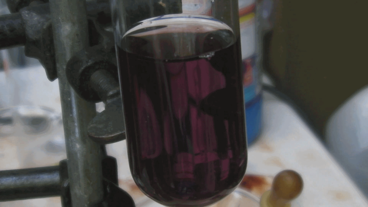 A crude solution of potassium ferrate(VI). It has been made by heating iron powder and potassium nitrate and washing the ferrate(VI) out of the iron oxides.